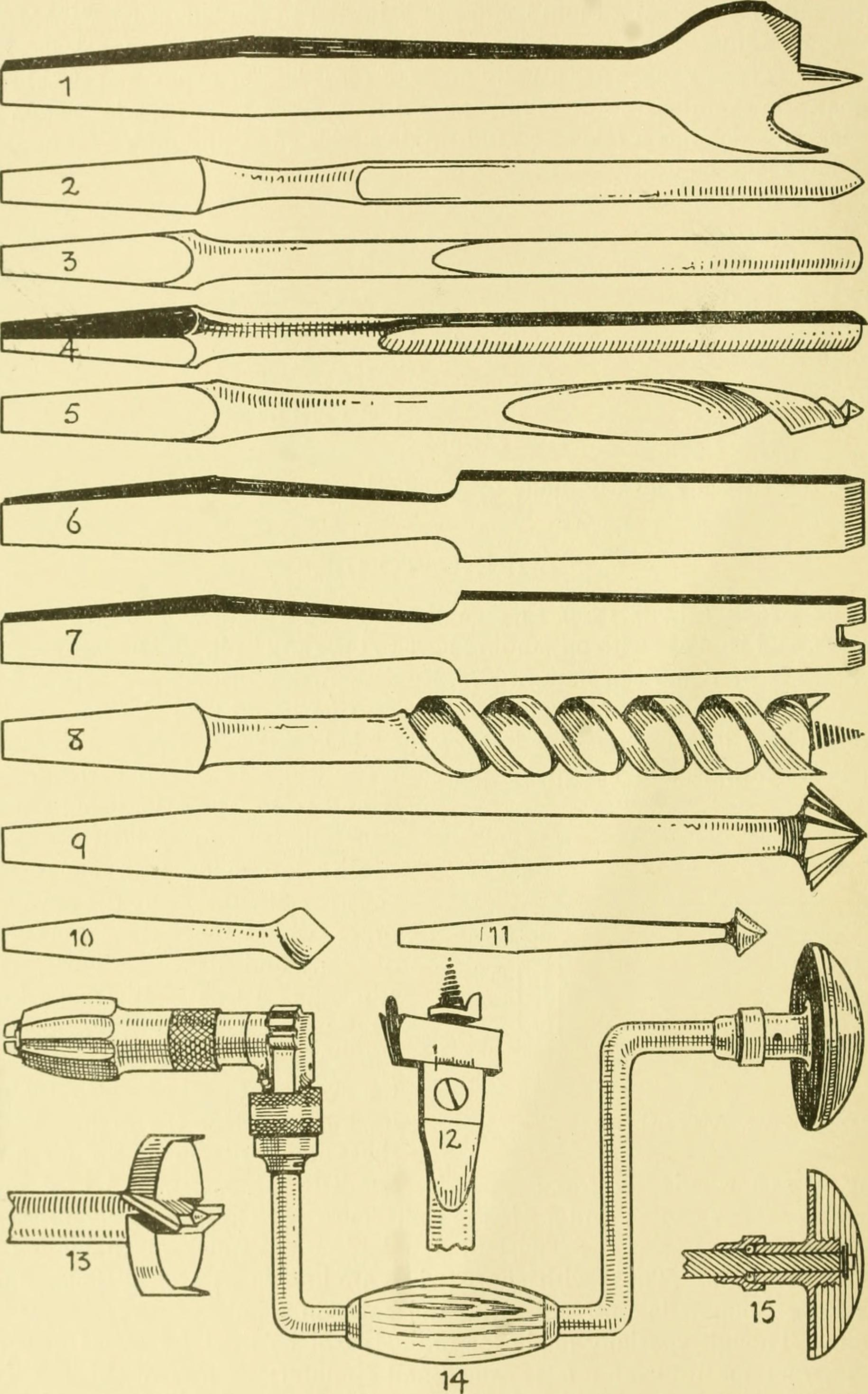 Title: Modern cabinet work, furniture & fitments; an account of the theory & practice in the production of all kinds of cabinet work & furniture with chapters on the growth and progress of design and construction; illustrated by over 1000 practical workshop drawings, photographs & original designs Year: 1922 (1920s) Authors: Wells, Percy A Hooper, John, b. 1882 Subjects: Cabinetwork Furniture making Publisher: Philadelphia, J.B. Lippincott Company Text Appearing Before Image: 2. A Tee Gauge. ,4 MODERN CABINETWORK, FURNITURE, AND FITMENTS Text Appearing After Image: Brack and Bits. TOOLS—APPLIANCES—MATERIALS 15 meter, see f. 12 opposite. A patent cylindrical centre bit with four cutters isshown in f. 13; it bores clean, and can be obtained from § up to if in. inwidth. Rimers are bits for enlarging holes, and are square or half round insection, and tapering to a point. The Shell Rimer is half round but hollow,whilst the others are solid, and are used chiefly for metal. Drills, with anArchimedean stock, are often used for small holes in very fine work. StockDrills are usually preferred for boring in hard woods, as they do not drift inboring. They are fixed in an ordinary brace, and can be obtained in the usualsizes. A Brace Bit Holder is a handy substitute for the brace when it cannotbe used. It is a box or hardwood handle similar to that on a gimlet, with asquare tapering hole to take the shank of the bit, and is very useful for riming.Bradawls and Gimlets are hand-boring tools which need no illustration. Theyare really bits fixed in a handle